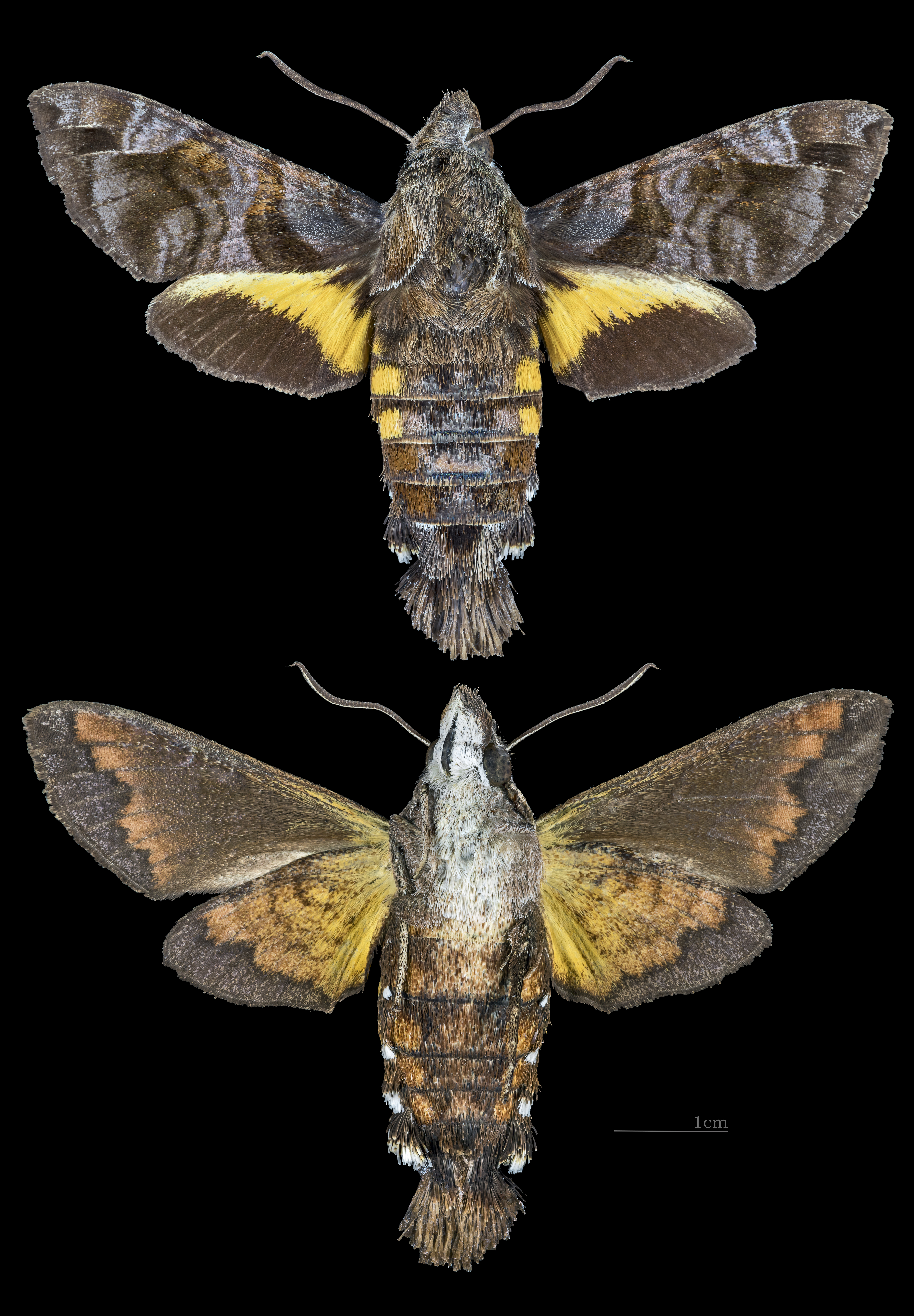 Hermit hummingbird hawkmoth - Two views of same specimen Collection of the Mathematician Laurent Schwartz